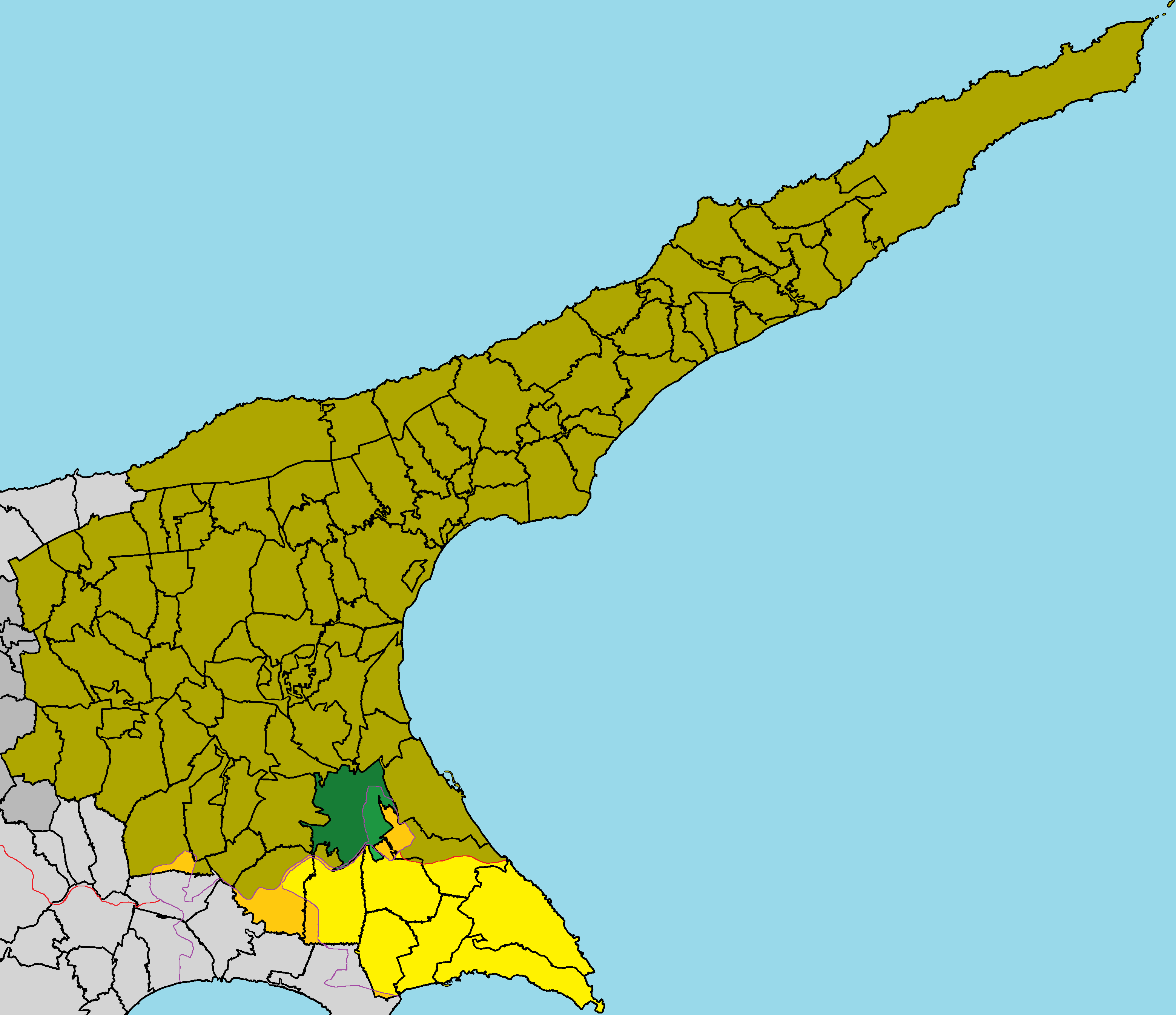 Acheritou in Famagusta District (de jure).